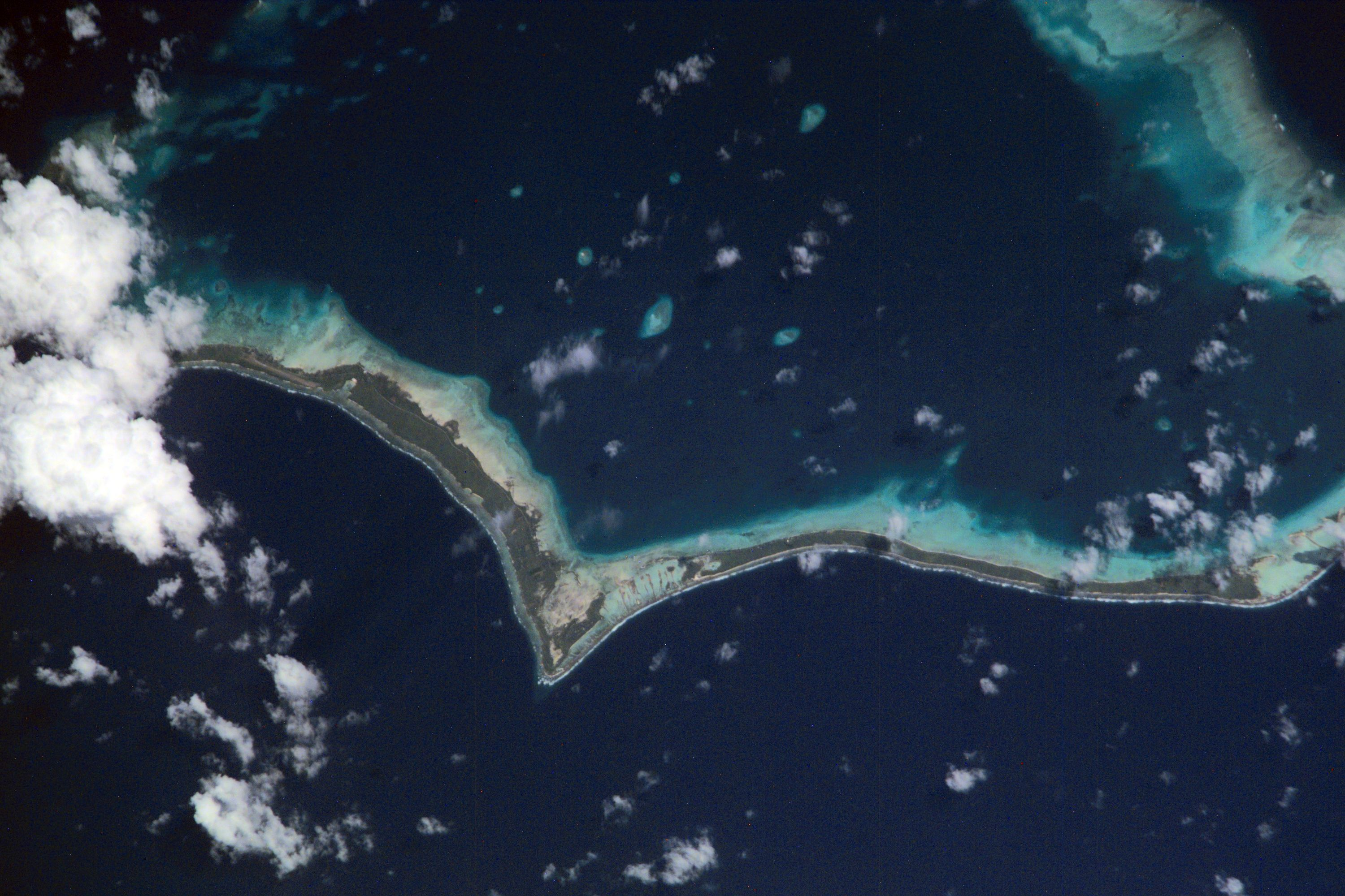 NASA astronaut image of part of Butaritari Atoll, Gilbert Islands, Kiribati ISS Crew Earth Observations: ISS002-E-7911 Identification Mission ISS002 (Expedition 2) Roll E Frame 7911 Country or Geographic Name Kiribati Features BUTARITARI ATOLL Center Point Latitude 3.0° N Center Point Longitude 173.0° E Camera Camera Tilt High Oblique Camera Focal Length 800 mm Camera Kodak DCS460 Electronic Still Camera Film 3060 x 2036 pixel CCD, RGBG array. Quality Percentage of Cloud Cover 0-10% Nadir What is Nadir? Date 2001-06-24 Time 21:55:55 Nadir Point Latitude 47.2° N Nadir Point Longitude -70.8° E Nadir to Photo Center Direction West Sun Azimuth 278° Spacecraft Altitude 202 nautical miles (374 km) Sun Elevation Angle 25° Orbit Number 2830